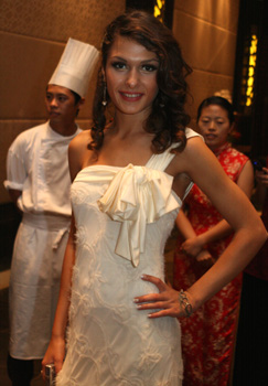 Miss Georgia 2007 - Tamar Nemsitsveridze in Miss World 2007, Sanya, China